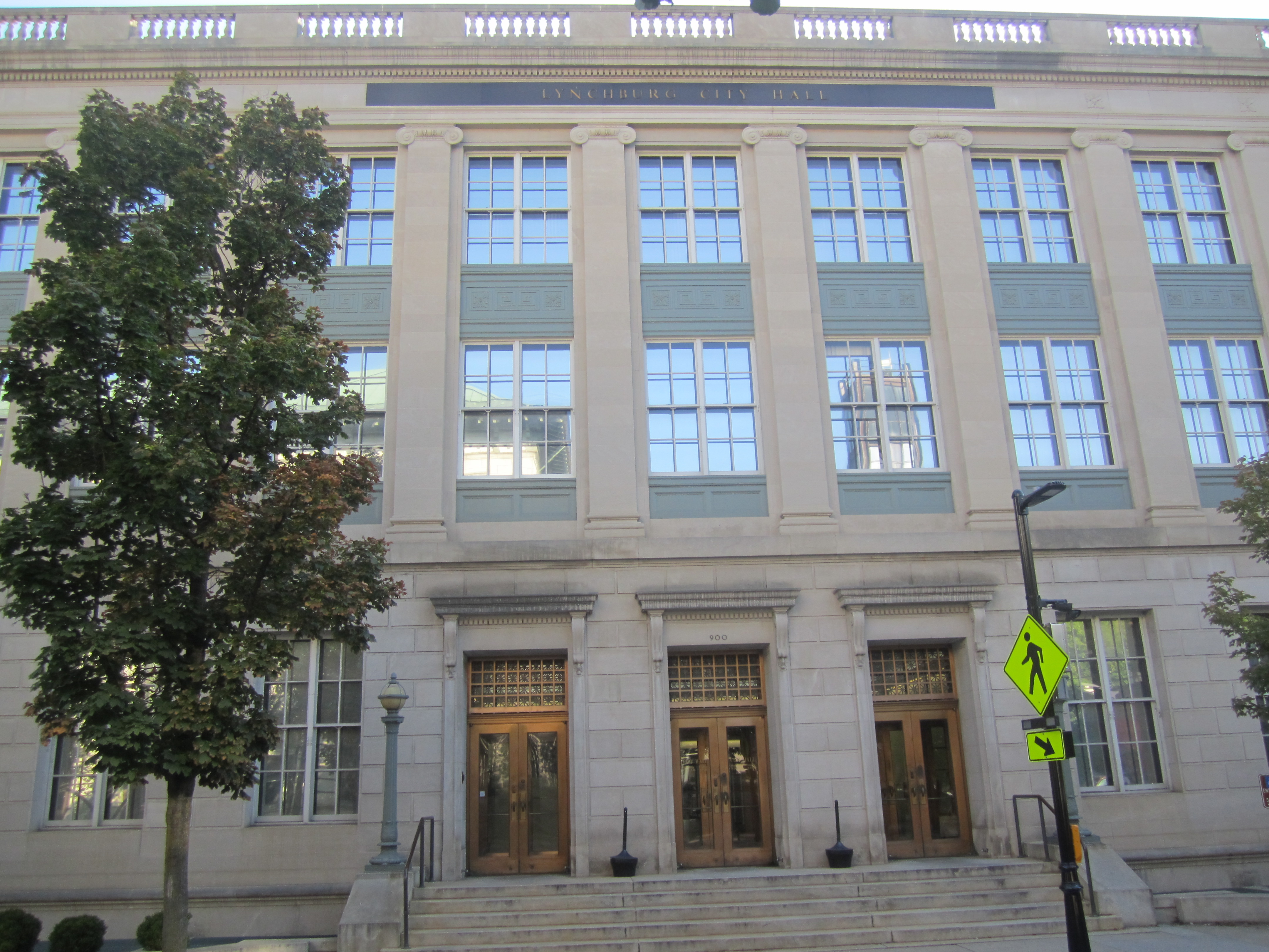 I took photo in Lynchburg, VA, with Canon camera.